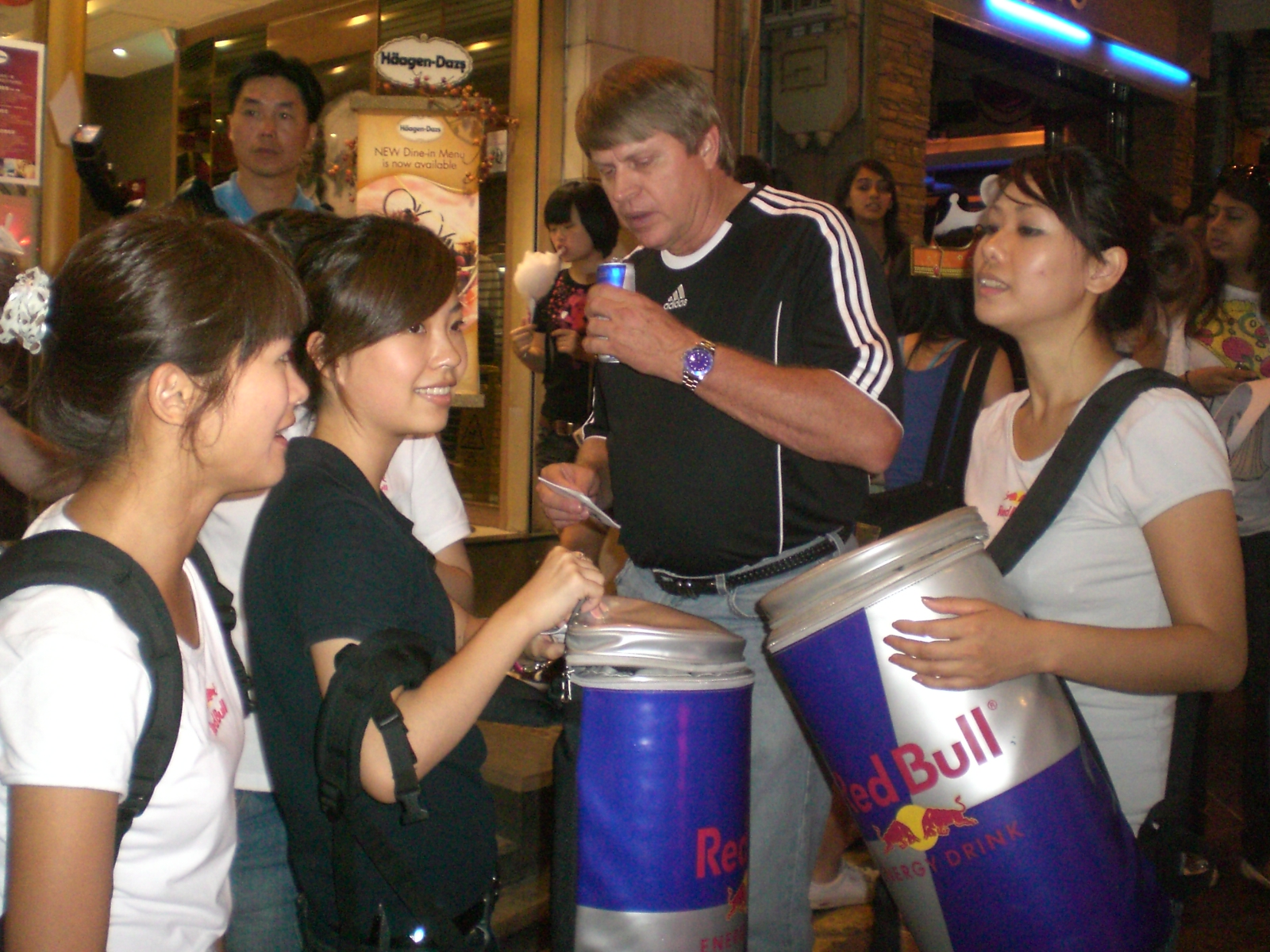 中環zh:蘭桂坊嘉年華 2008年